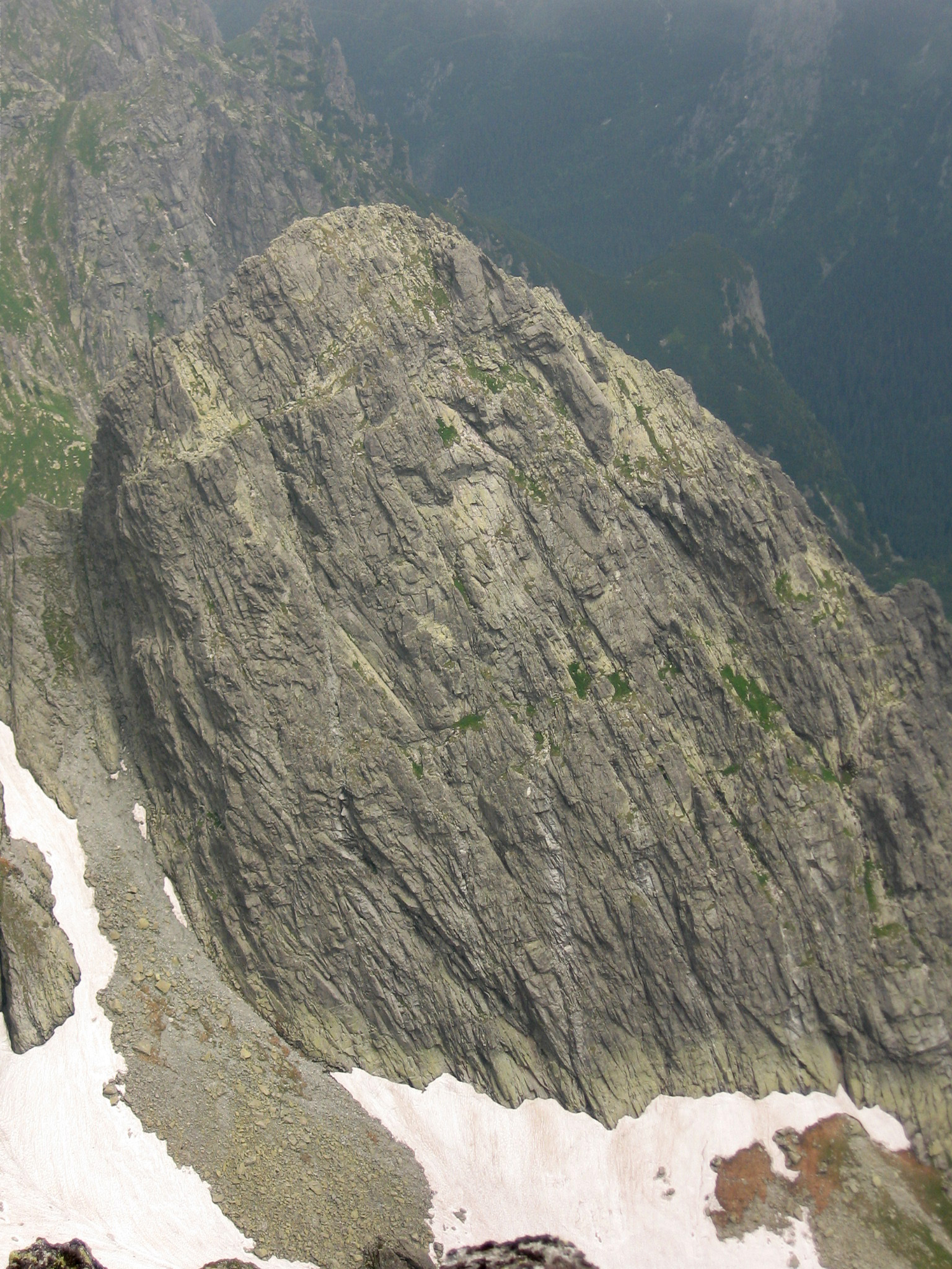 Southwest wall of Ťažká veža. View from Rysy.